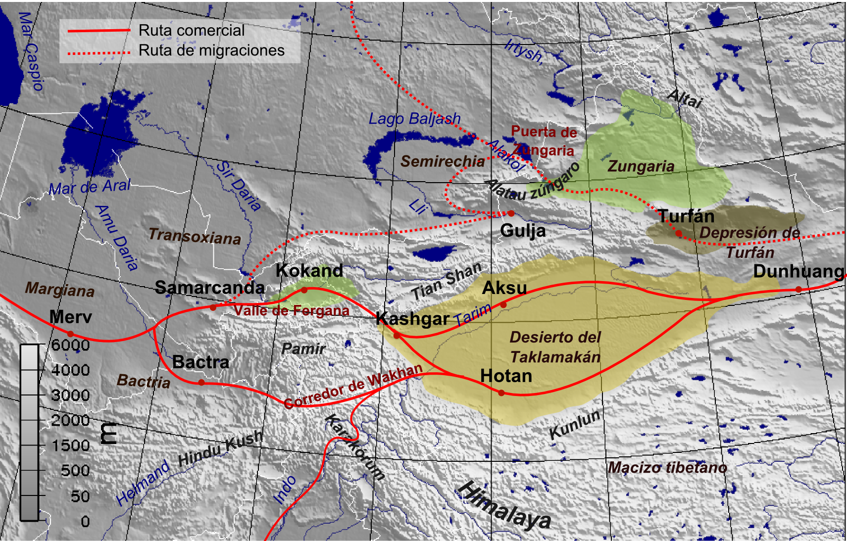 Map of the Silkroad through central Asia and major cities .